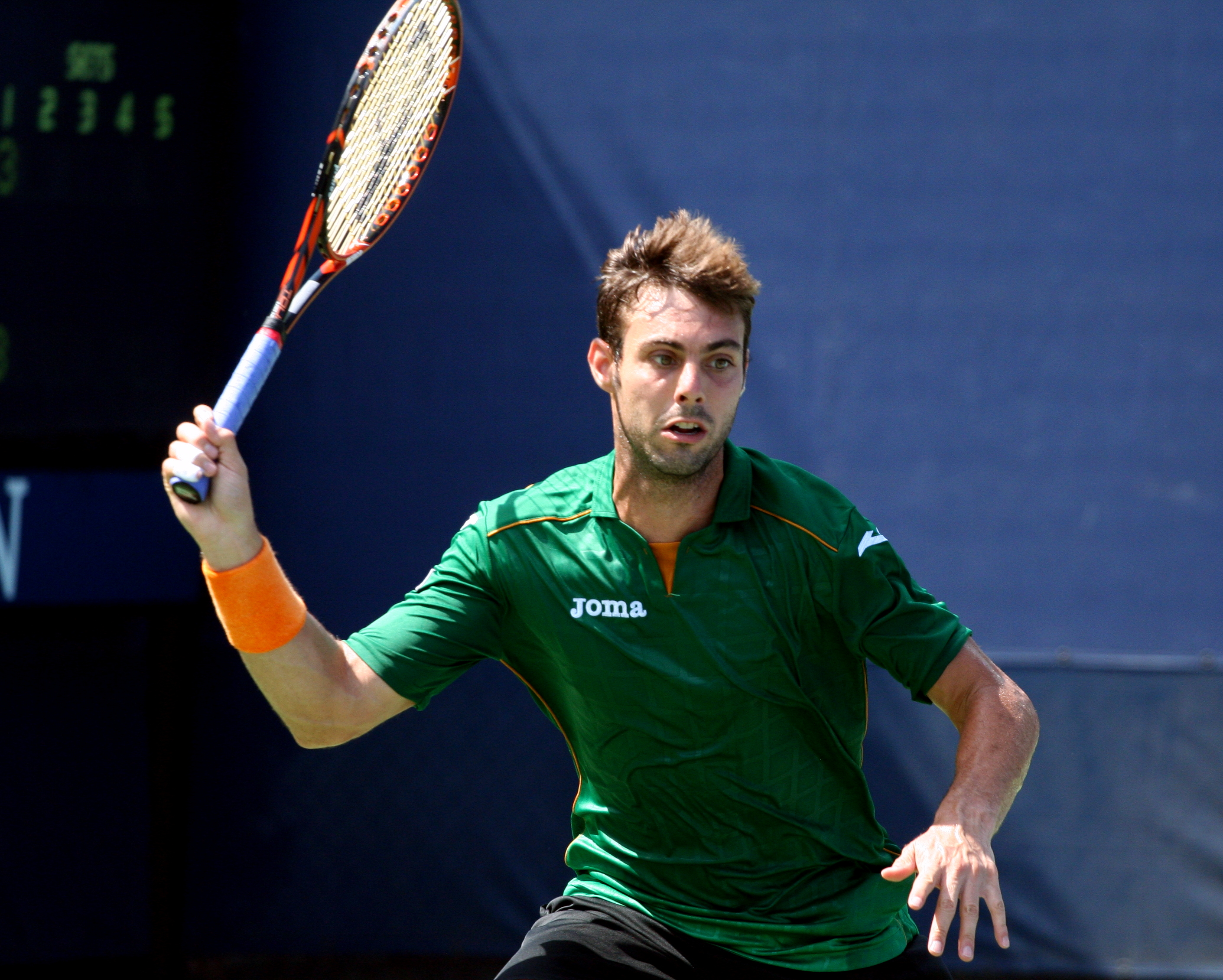 U.S. Open Tuesday, Aug. 26, 2014